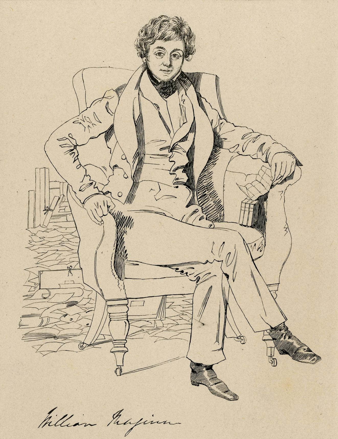 Portrait of William Maginn, whole-length sitting in armchair, with legs crossed, paper and books in the left background; after a pen drawing; illustration to 'Fraser's Magazine'. Lithograph